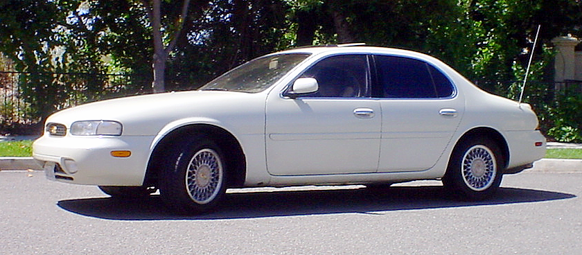 1994 Infiniti J30t